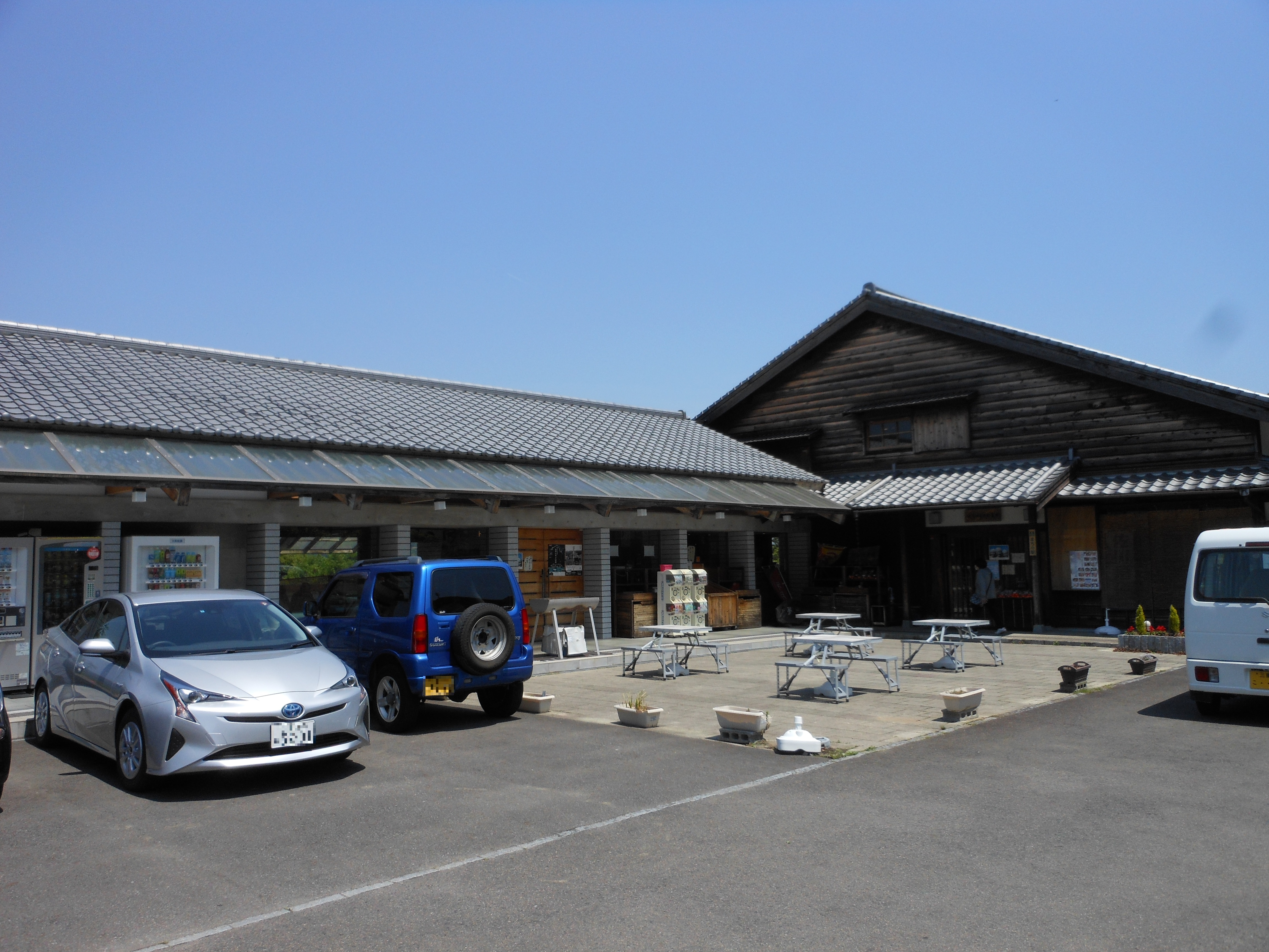 This is the regional exchange facility "Yumekodo Owase" in Owase, Mie, Japan.